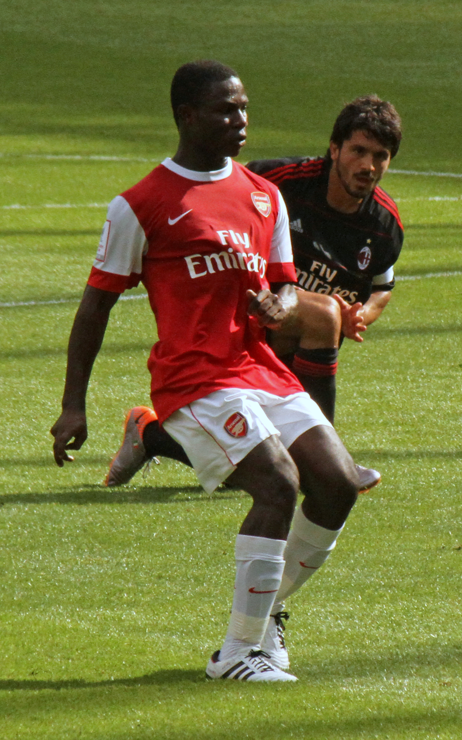 Ghanian-English football player Emmanuel Frimpong while playing for Arsenal F.C.